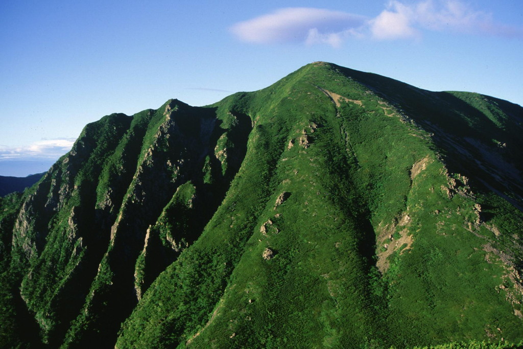 Mount Usagi seen from Mount Kousagi